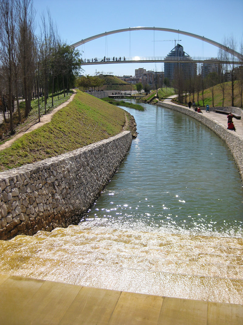 River Turia in Parc de la Capçalera, Valencia, Spain.